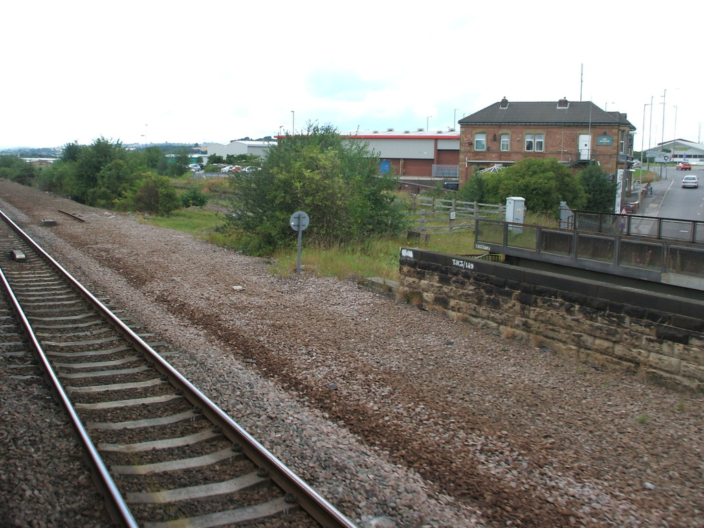 Parkgate & Rawmarsh railway station (site), YorkshireOpened in 1853 on the Midland Railway's line from Rotherham to Leeds, this station closed in 1968. View south west from a passing train. The sole surviving platform can be seen behind the bushes.